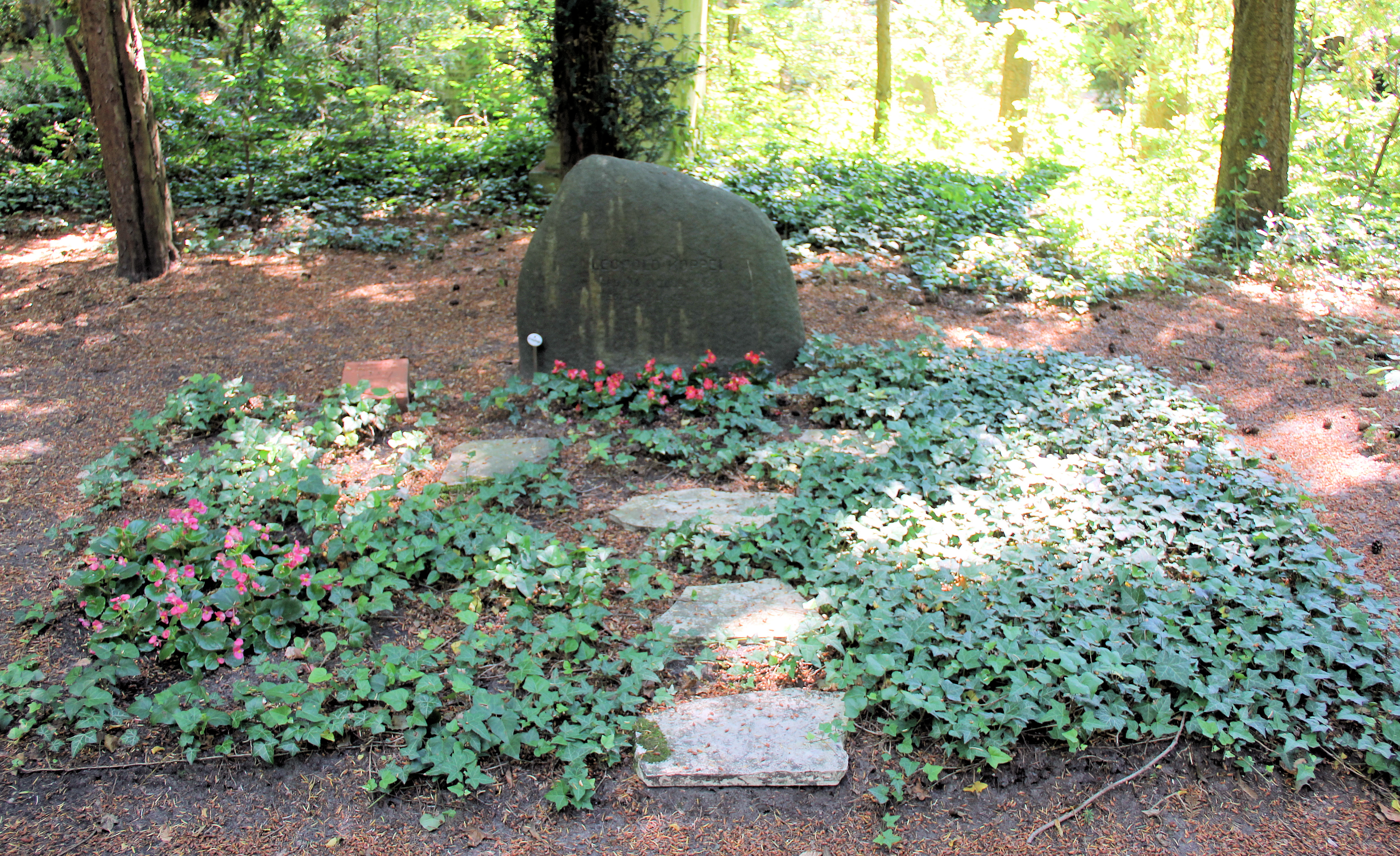 "Ehrengrab" (grave of honor), Leopold Koppel, Thuner Platz 2-4, Berlin-Lichterfelde, Germany Koordinate:52°25′24″N 13°17′45″E / 52.42333°N 13.29583°E